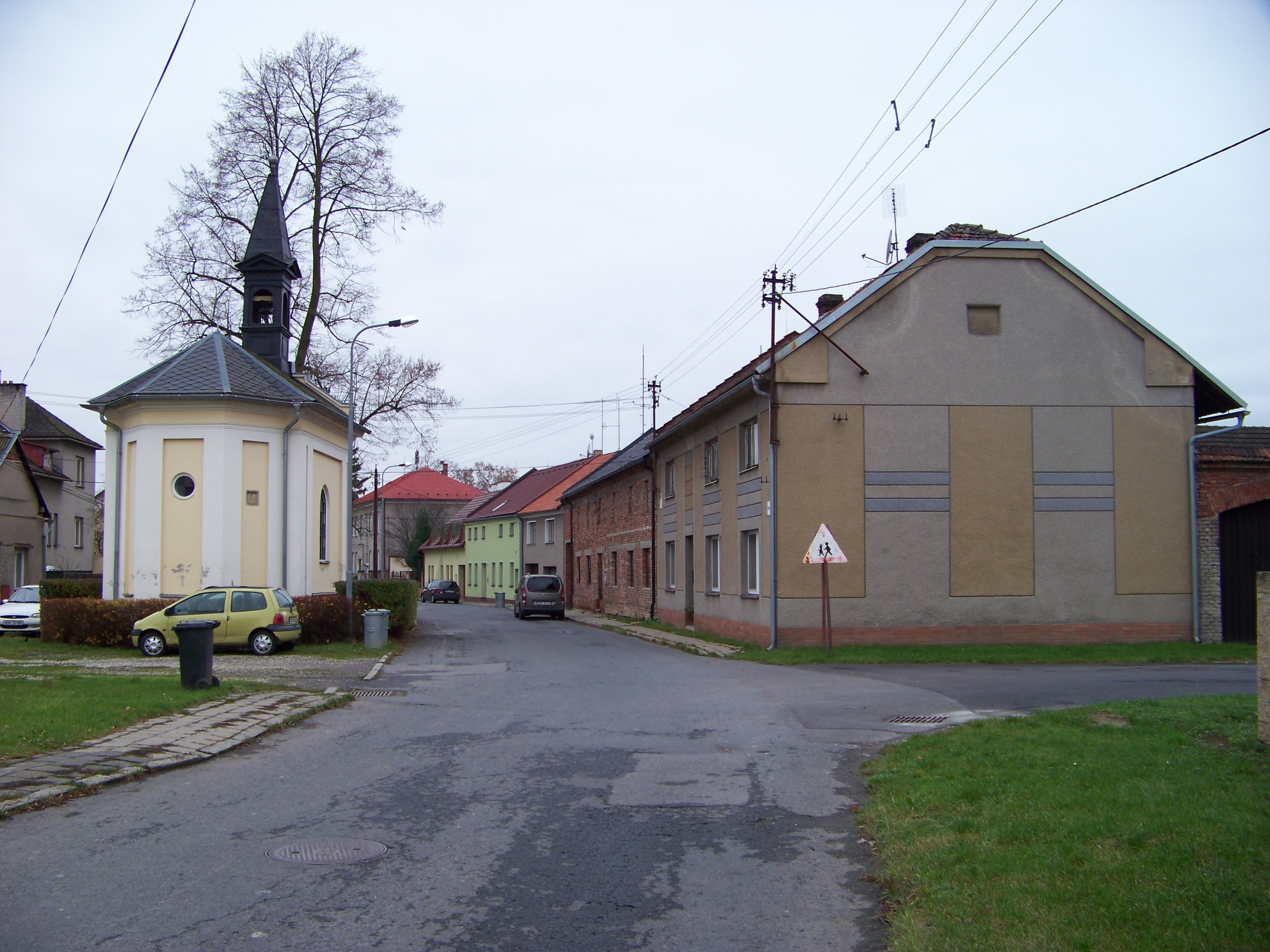 Olomouc-Týneček, Olomouc District, Olomouc Region, Czech Republic. Blodkovo náměstí 21–15, a chapel.